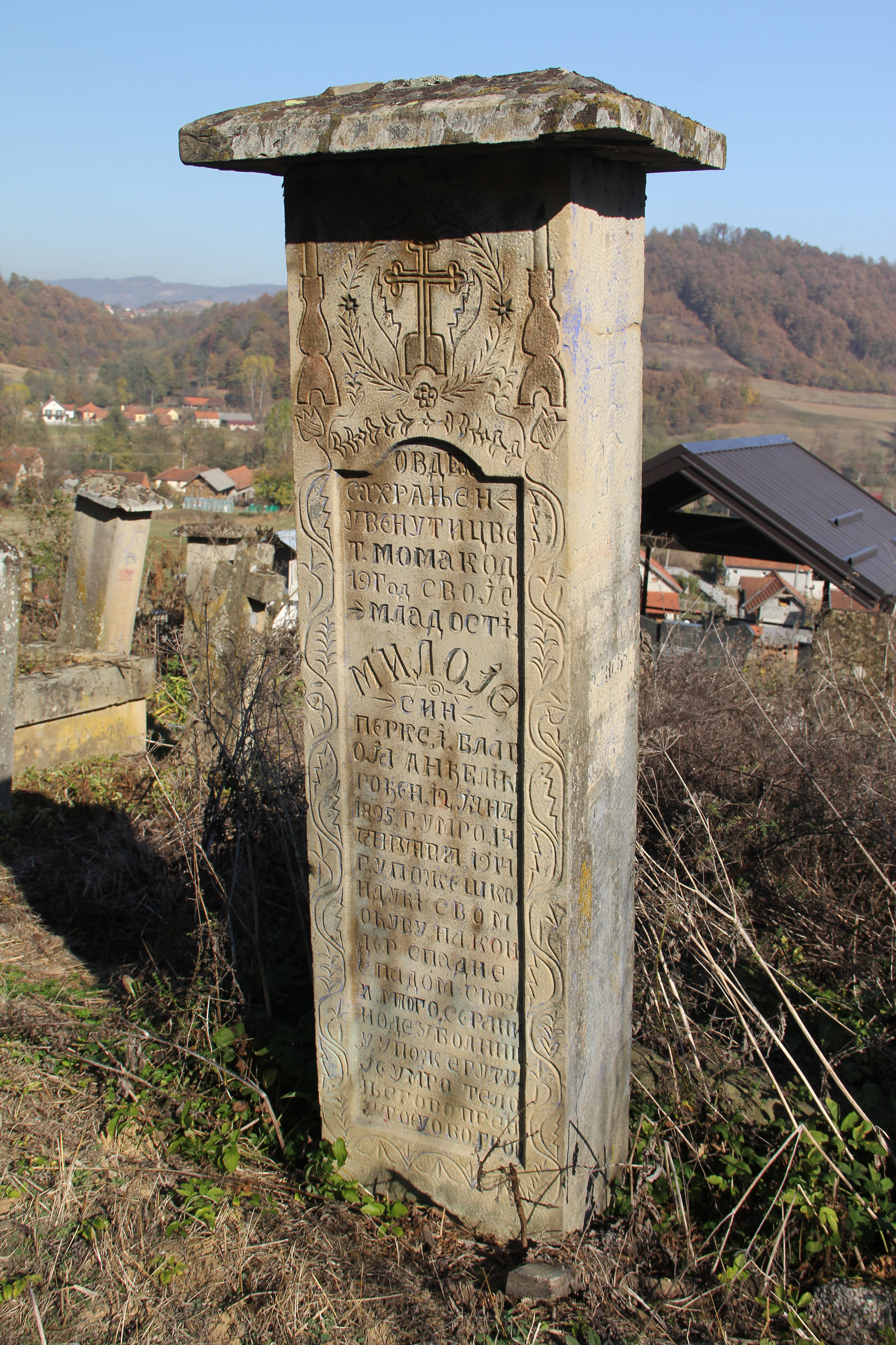 Old gravestones at the Andjelica cemetery in the village of Guca (the municipality of Lucani), Serbia.